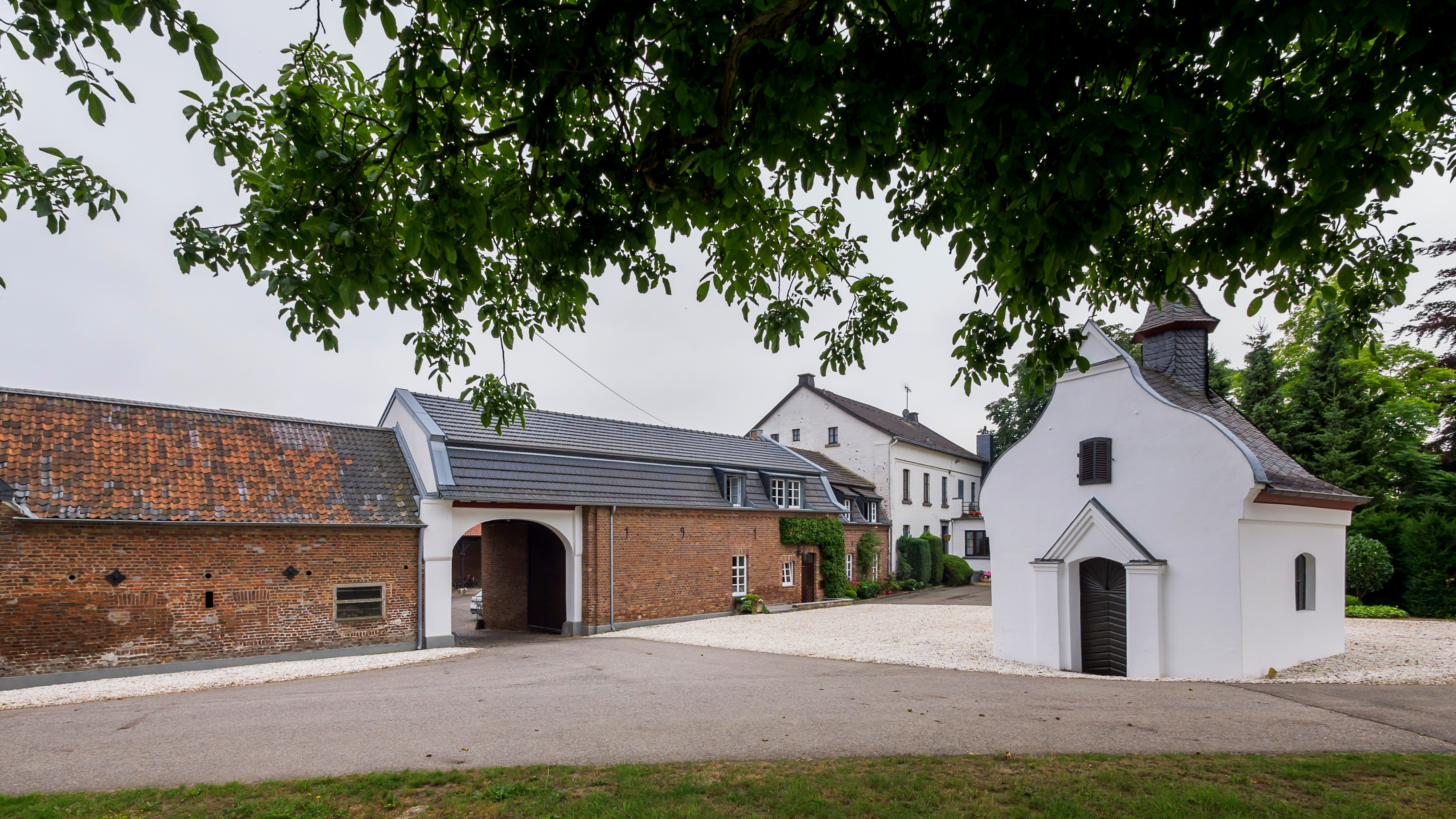 Millendorf - Schunkenhof Sankt HubertuskapelleThis is a photograph of an architectural monument., no. 7